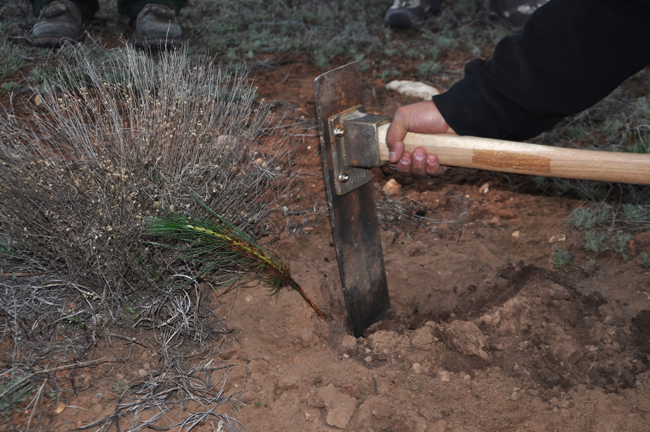 X Fire Tree Planting Restoration Project on the Tusayan Ranger District. April 12, 2012. Photo taken by Dyan Bone. DSC_0050a. Please give credit to: U.S. Forest Service, Southwestern Region, Kaibab National Forest.